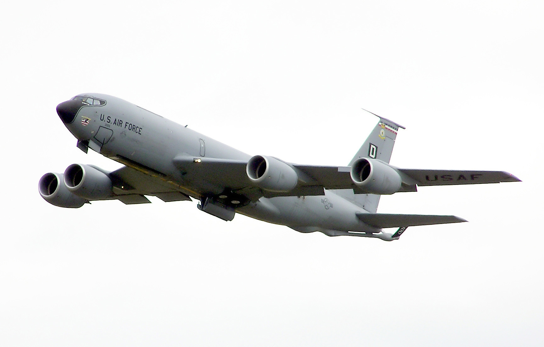 USAFE KC-135 tanker takes off from the Royal International Air Tattoo, Fairford, Gloucestershire, England. Photographed by Adrian Pingstone in July 2005 and released to the public domain.